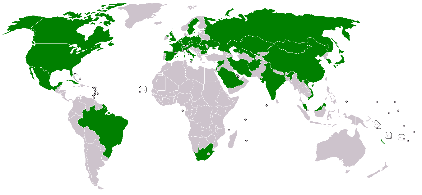 Countries whose citizens have flown in space.